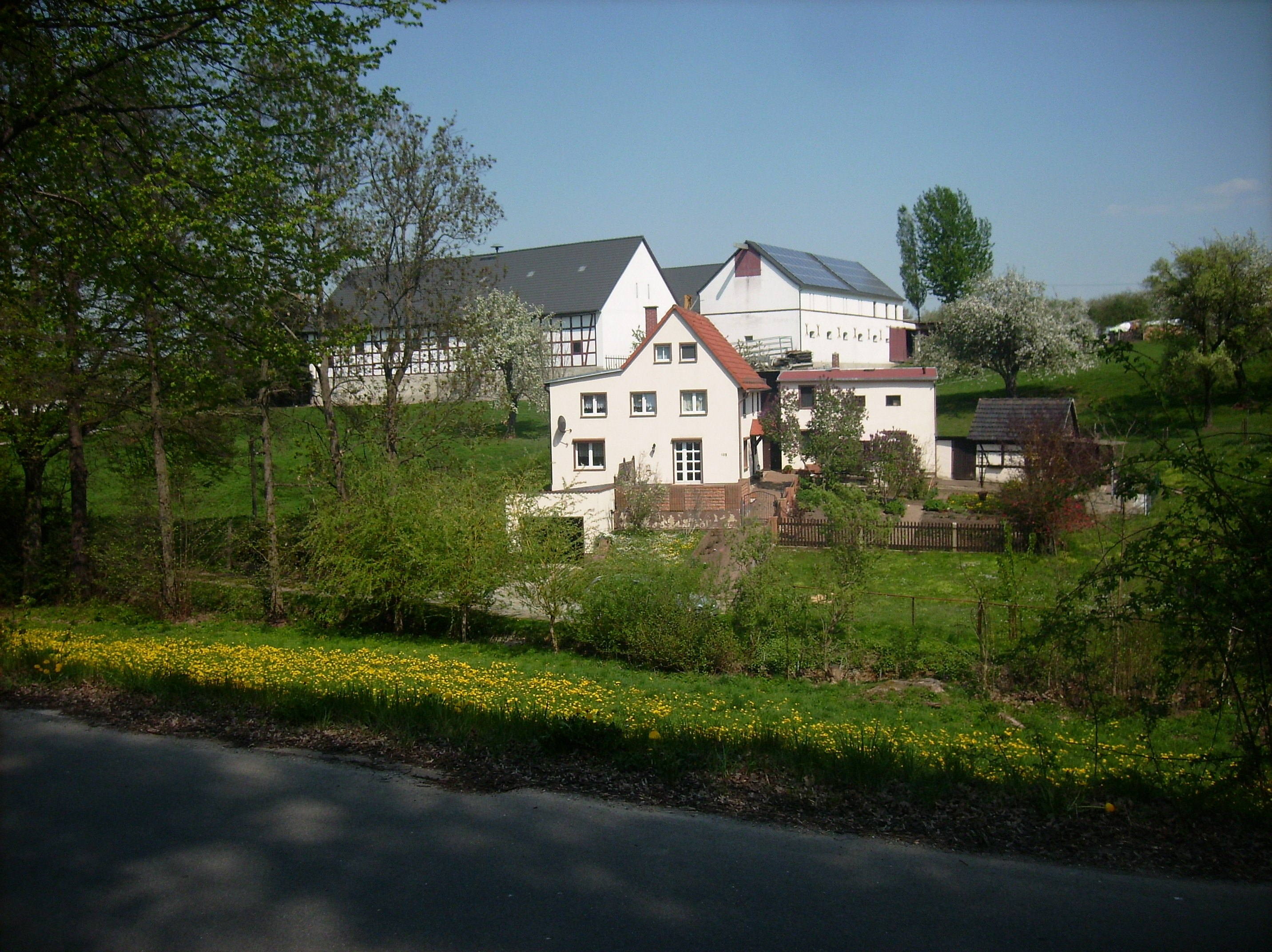 In the southern part of Thonhausen (district of Altenburger Land, Thuringia)